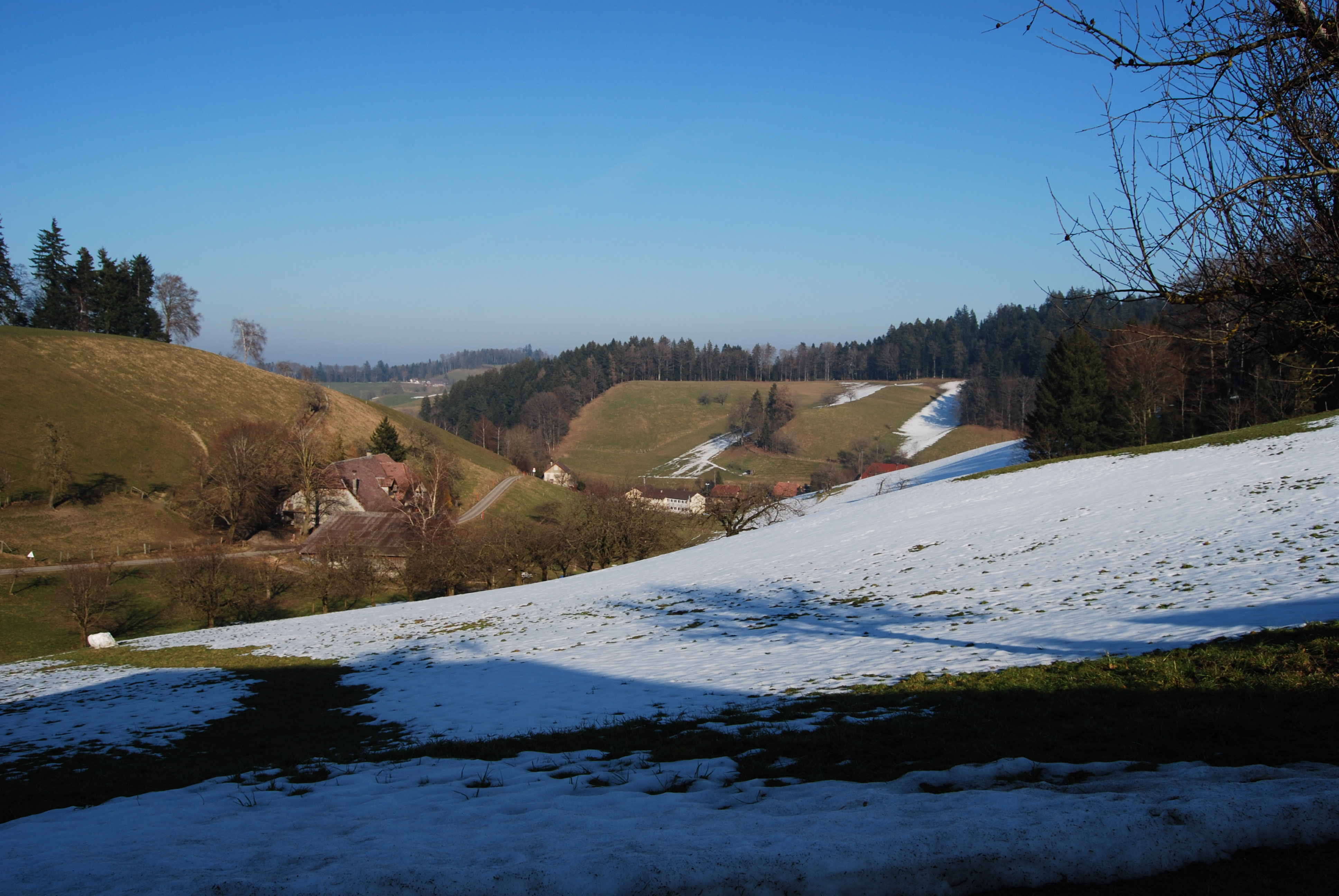 Rohrbachgraben, canton of Bern, SwitzerlandEsperanto: Rohrbachgraben, Kantono Berno, Svislando